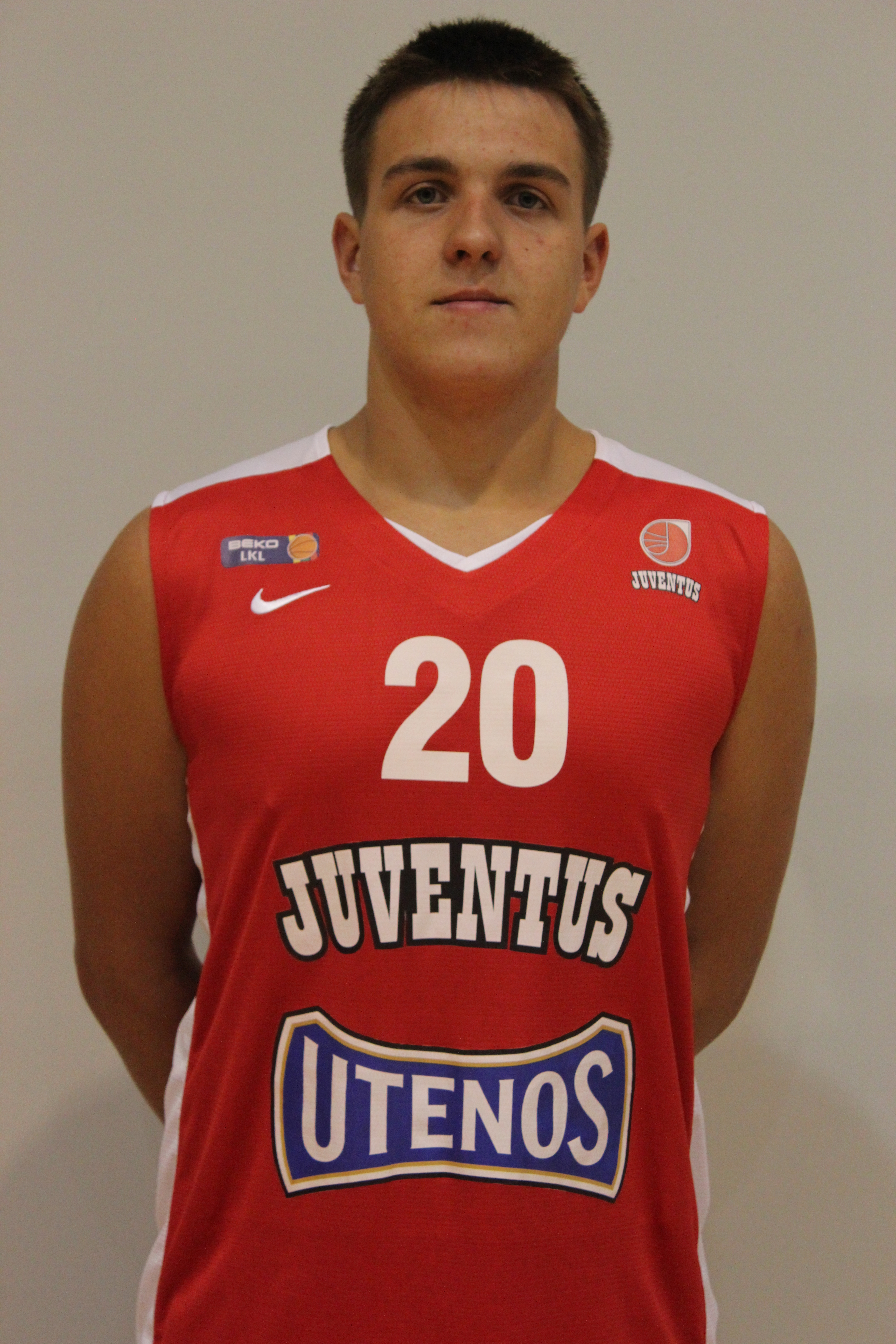 Photo of BC Juventus player Arijus Pašakarnys during the 2014-15 season.